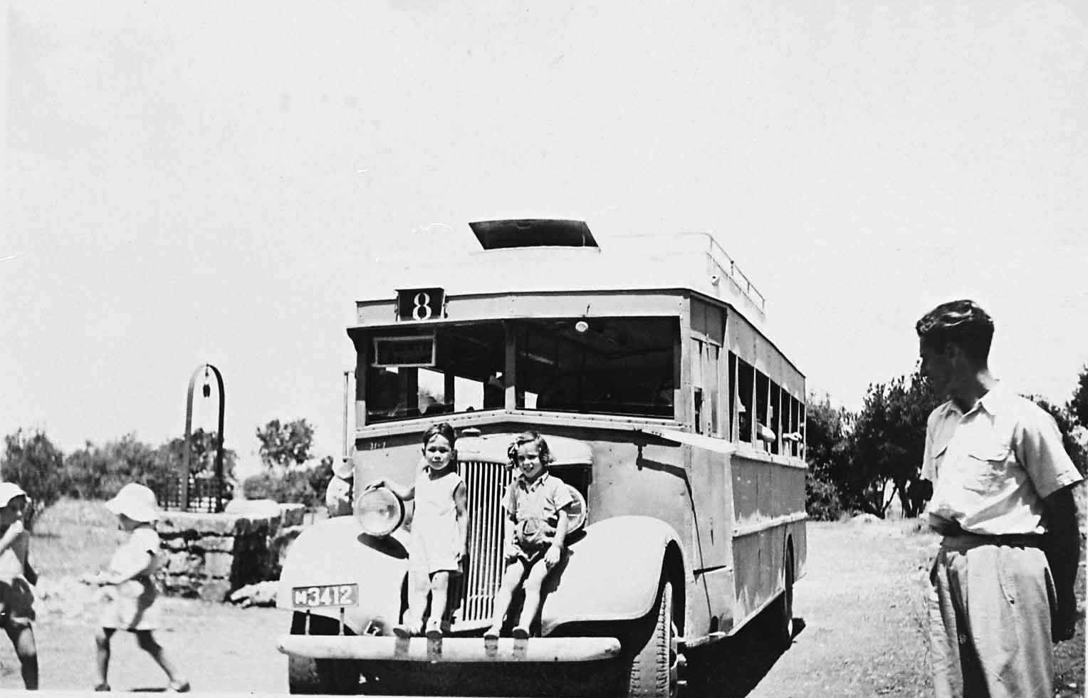 Children of Kibbutz Ein-Hashofet on Egged bus, Mount Carmel